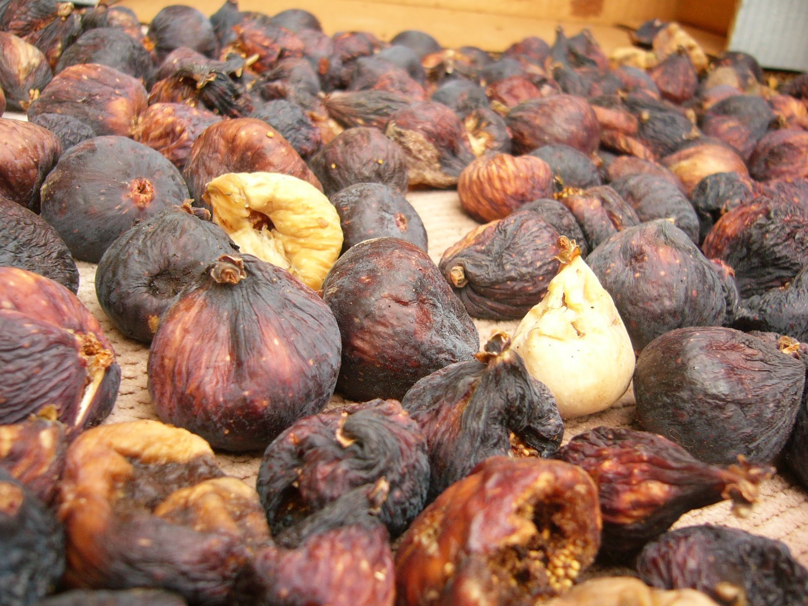 "Quttain" the arabic name of dried figs , photo was taken in Bil'in